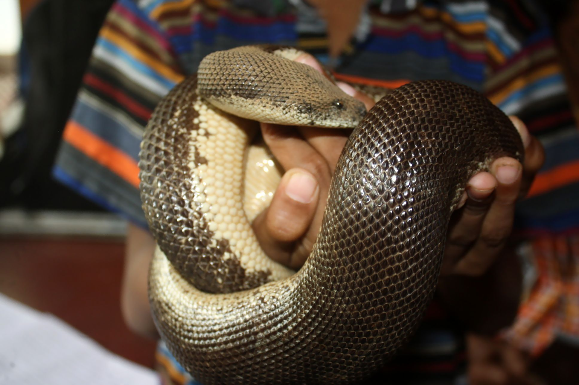 Common Sand Boa - Gongylophis conicus - മണ്ണൂലിപ്പാമ്പ്‌